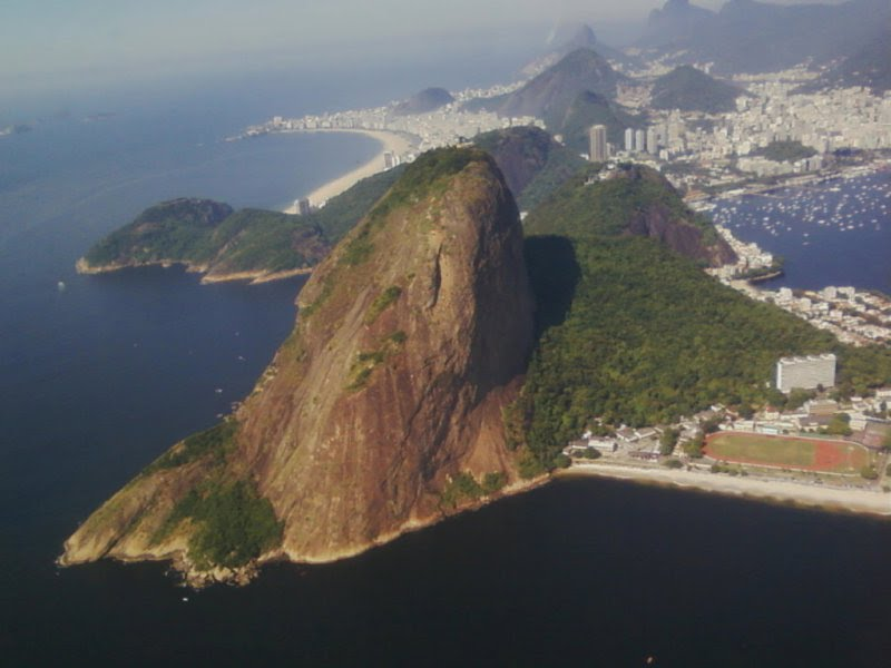 Outside beach